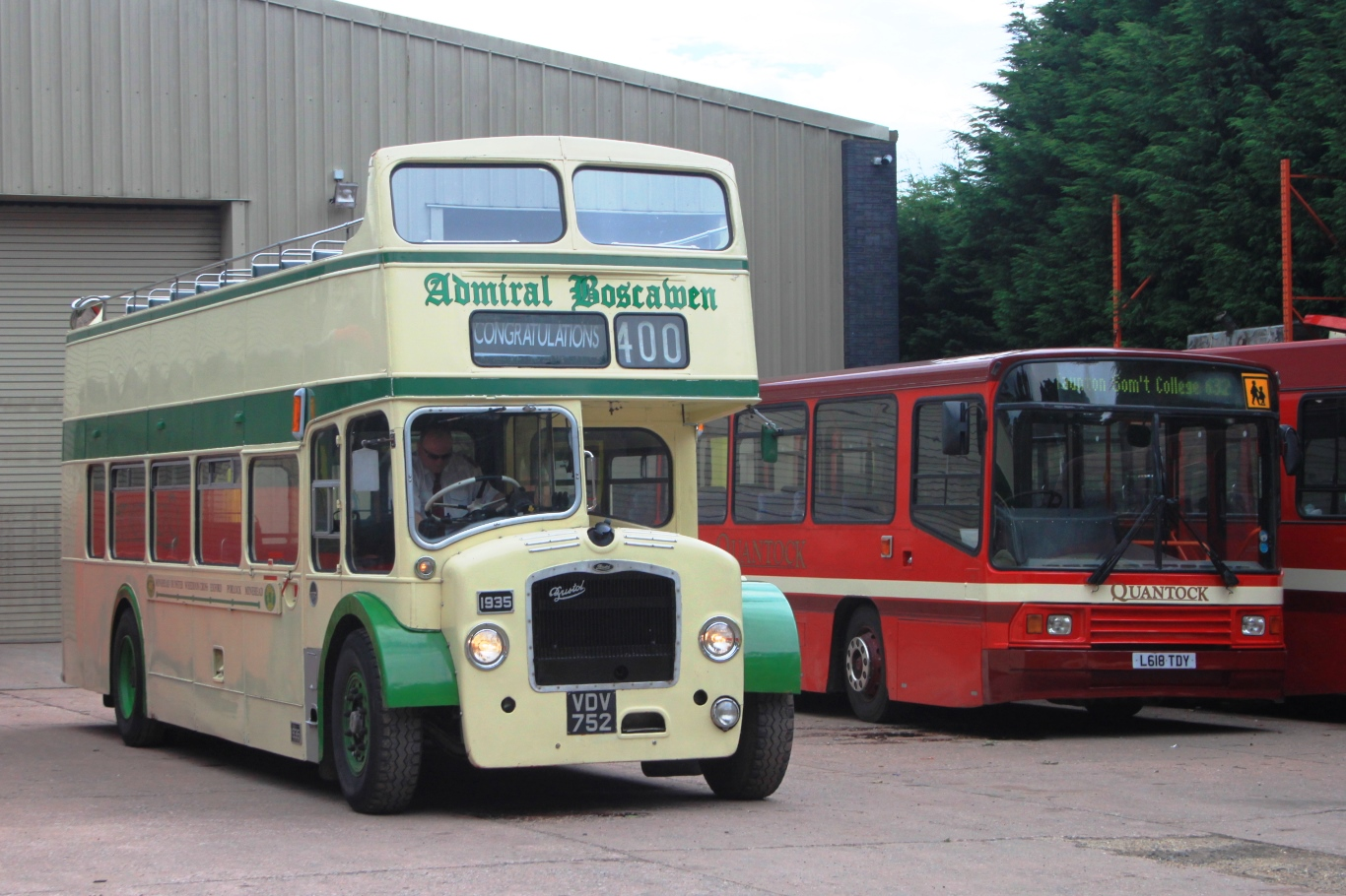 Two buses outside the Quantock Motor Services' depot in Bishops Lydeard, Somerset. On the left is 1957-built Bristol LDL VDV 752, one of their heritage fleet which is being prepared for a wedding charter. On the right is L618 TDY, a Volvo B10M-55 with Alexander body that was new to South Coast Buses in 1994.